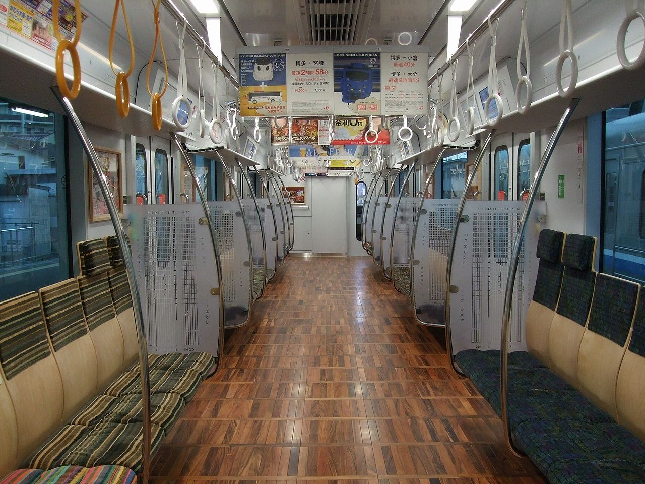 The interior of JR Kyushu 305 series EMU car KuHa 305-3 (car No. 1 of 6-car set W3) with wooden flooring